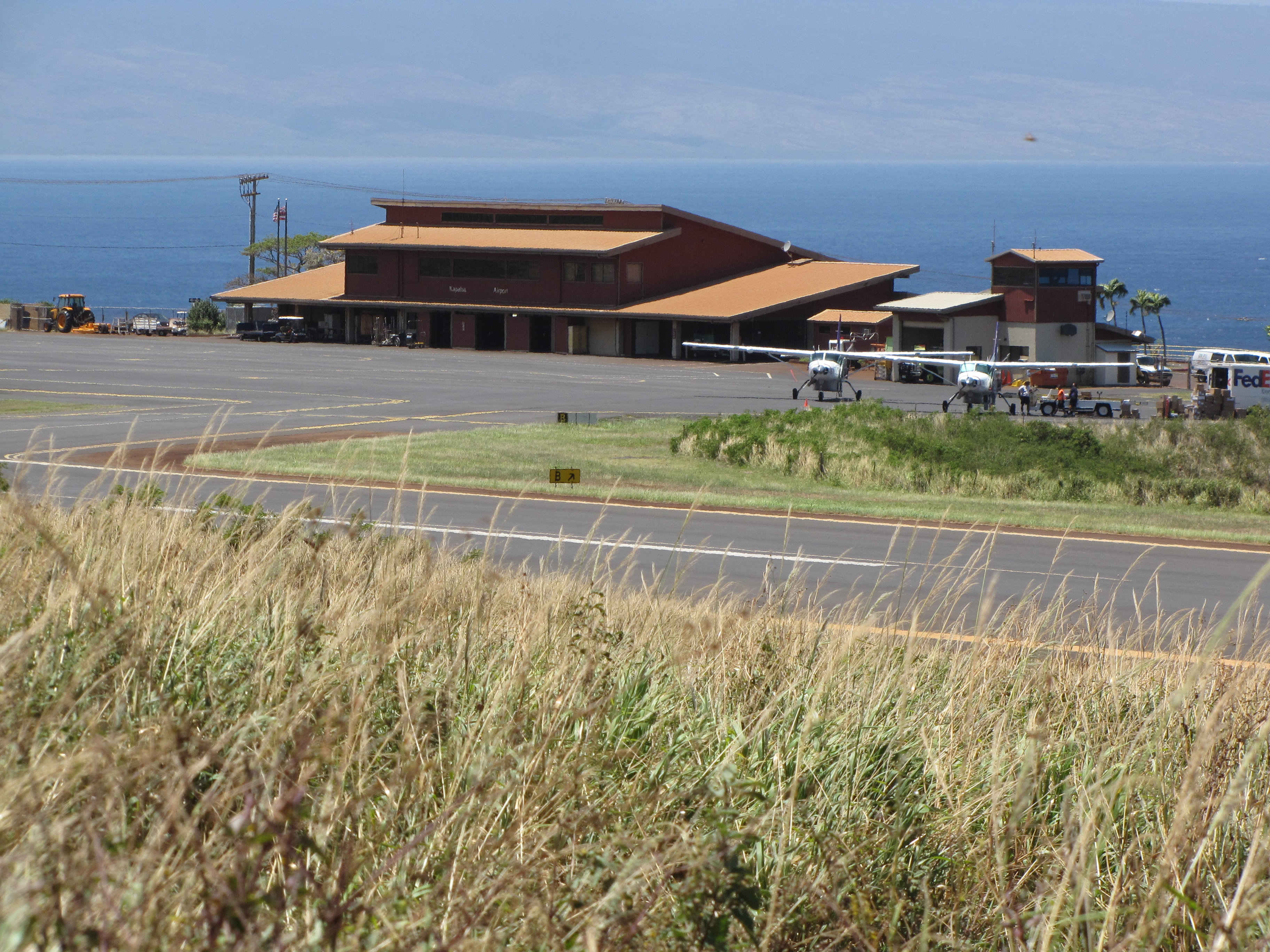 Digitaria insularis (Sourgrass) Habit view Kapalua Airport at Kahana West Maui, Maui, Hawaii. April 12, 2011 #110412-5113 Image Use Policy